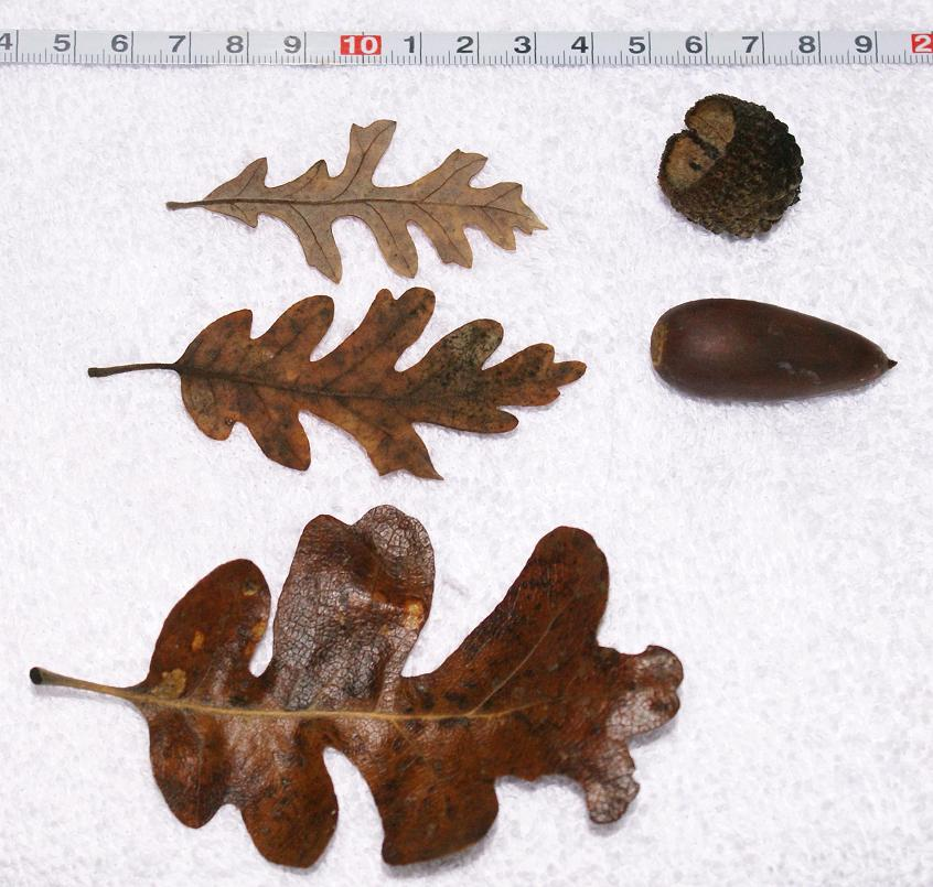 Valley oak acorn and leaves